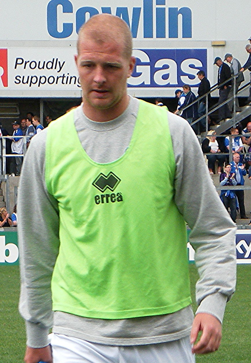 Garry Kenneth. Image cropped from original at flickr.